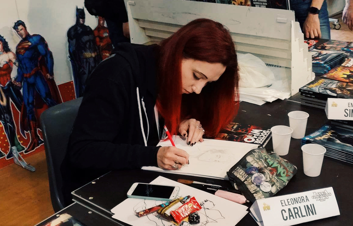 Eleonora Carlini at Lucca Comics and Games 2017